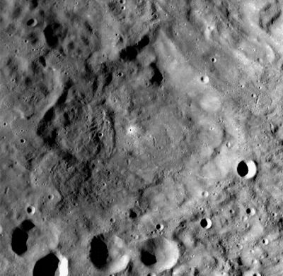 Houzeau far side lunar crater. LROC image WAC No. M102966588ME (processed by LROC_WAC_Previewer).